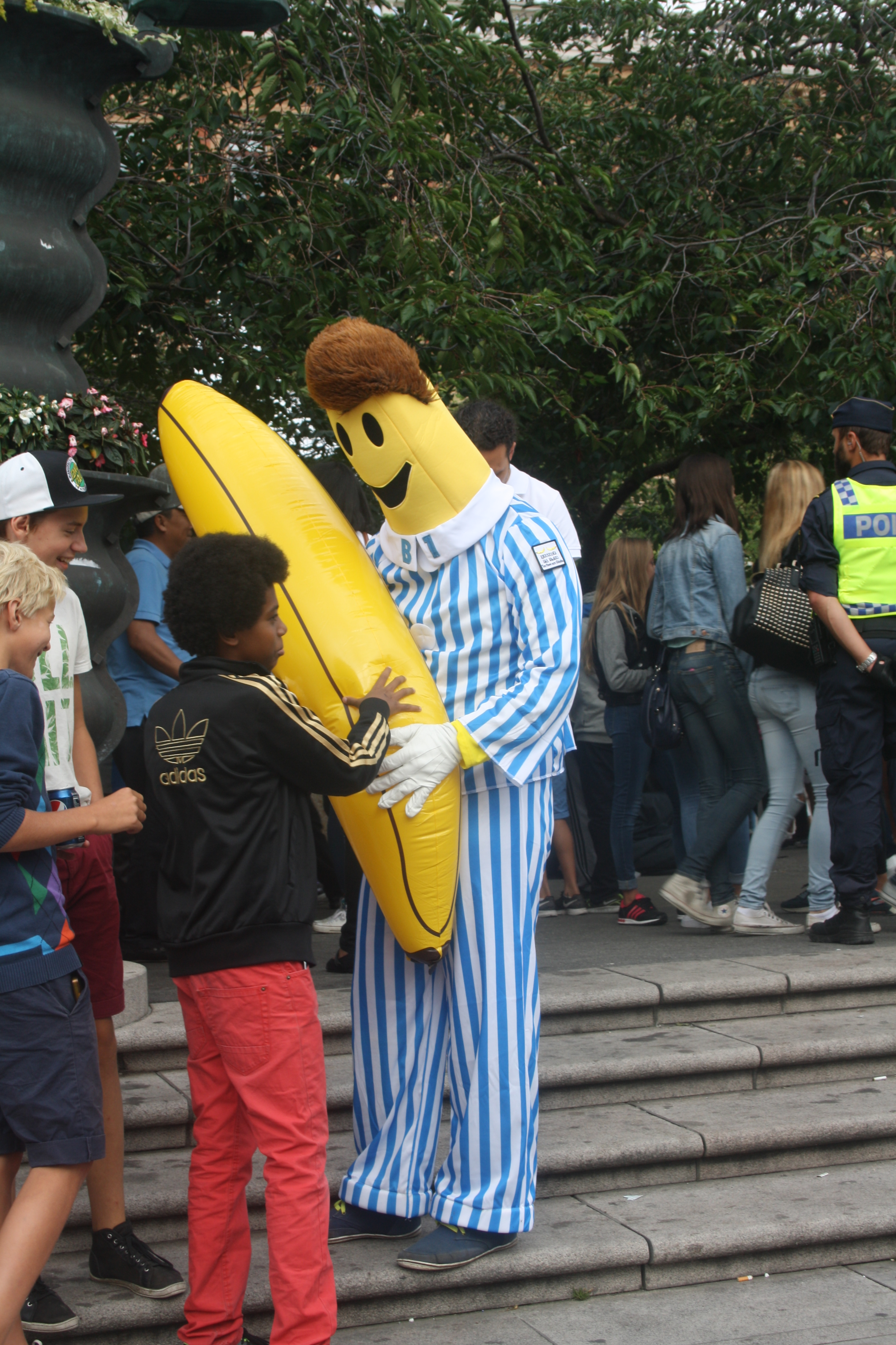 B1 from Bananas in Pyjamas